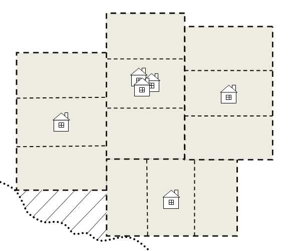 Scheme of the Wallach reform "Schematic representation of fief". Legend: bold dashed line shows the boundaries of wallachs ("stena"), dashed line - the division into three parts dies, the house stands for the peasant house ("dym"), a few houses - the village, dotted line indicate the boundaries of fief, hatching - "zastenok".